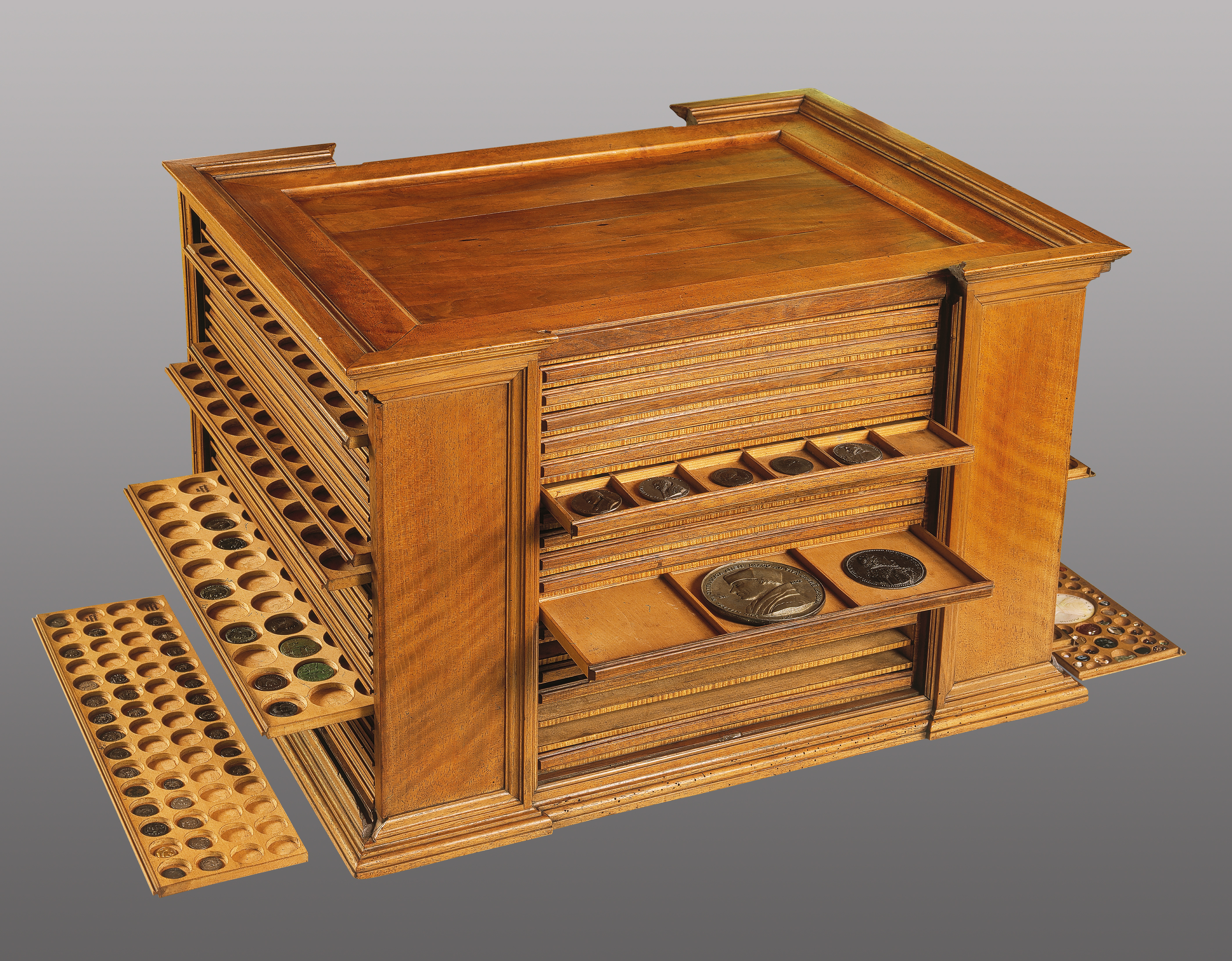 Basel, ca. 1578; Walnut, oak, maple, pear, linden wood, solid and veneered, in places onto softwood; H 45.9 cm, W 73.3 cm, D 55.6 cm; Inv. 1908.16.